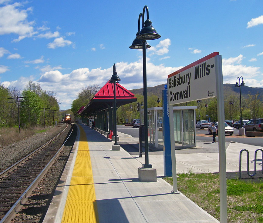 Photographed by Daniel Case 2007-05-06